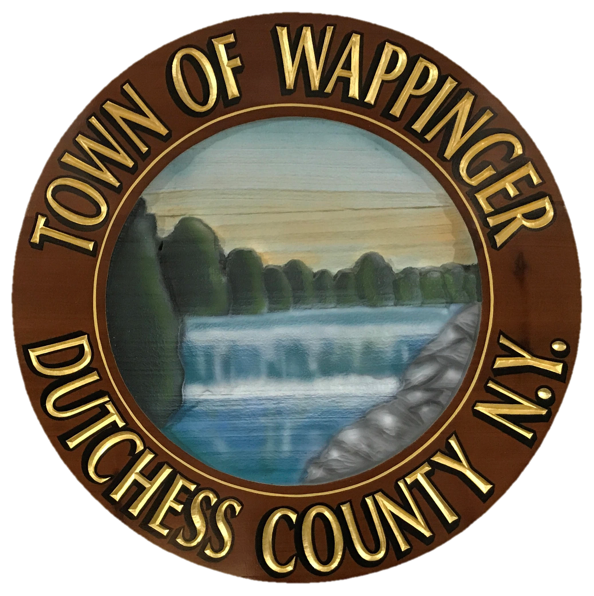 Wappinger Town Seal